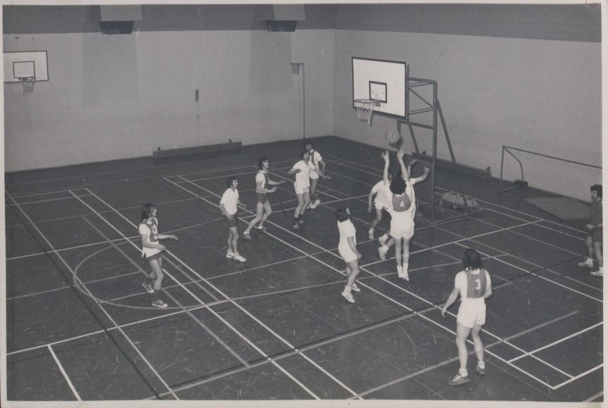 Ref: UL40/Box3/Folder4Thomond College of Physical Education students - Basketball